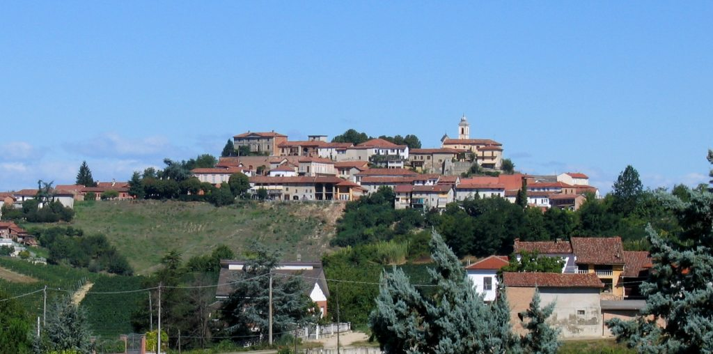 General view of Vigliano d'Asti (province of Asti, Piemonte, Italy